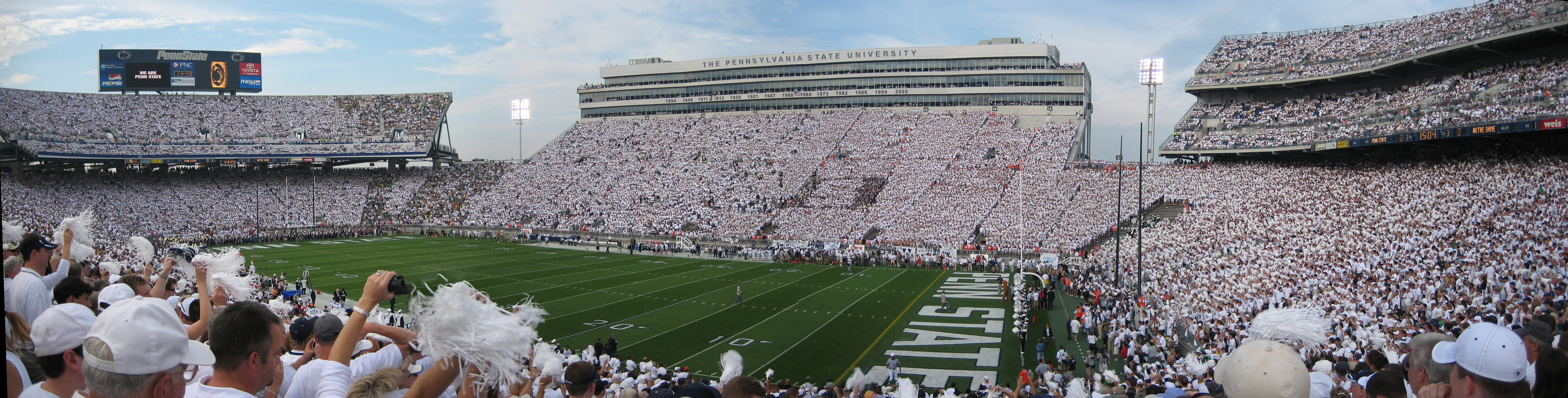 This is what the view of Beaver Stadium looked like from my seat for Saturday's match-up between the Penn State Nitany Lions and the Notre Dame Fighting Irish. If you couldn't tell, it was a "White Out" in Paternoville. Penn State Rocks!